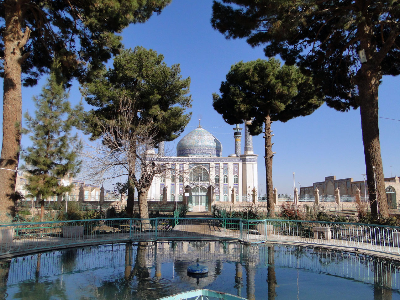 Mazar e Soltani, Bidokht, Gonabad. Shrine of Four Master's of Sufi Order Nimatullahi SoltanAliShahi Gonabadi: Haj Molla Soltanmohammad e Bidokhti e Gonabadi (SoltanAliShahi), Thirty-Fourth Qutb, Martyr in 1909; Haj Sheykh Mohammadhasan e Bidokhti e Gonabadi (SalehAliShah), Thirty-Six Qutb, Died in 1966; Haj Soltanhussain e Tabande Gonabadi (RezaAliShah II), Thirty-Seven Qutb, Died in 1992; Haj Ali Tabande (MahbubAliShah), Thirty-Eight Qutb, Died in 1996; Tomb of Haj Molla Ali e NurAliShah Gonabadi (NurAliShah II), Thirty-fifth Qutb, Martyr in 1918; is in Tehran, in Shrine of "Hazrate Abdol Azim" Near Tomb of Haj Mohammad Kazem e "SaadatAliShah" e Esfahani, Thirty-third Qutb, Died in 1876. (Taken in Spring 2010)